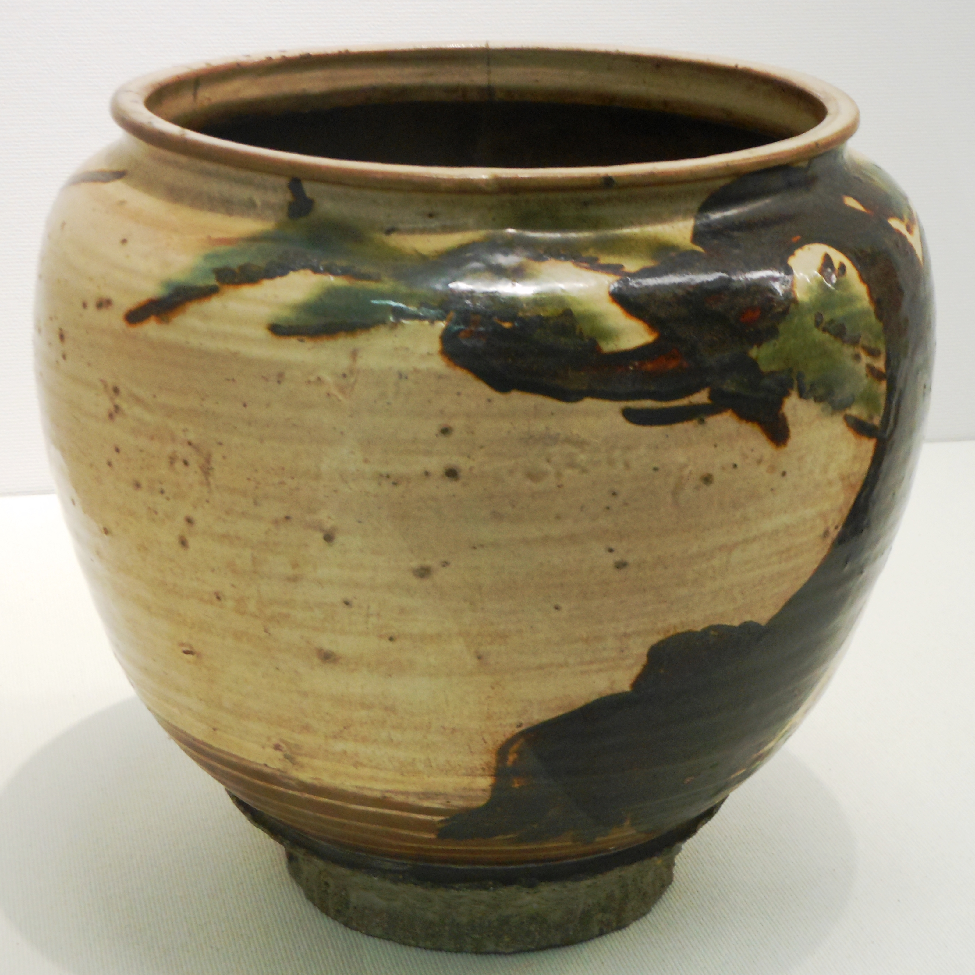 Name:Tetsue-Ryokusaimatsue-Ōgame (Large jar with iron and copper green painting, designed pine.), Yumino ware (stoneware), Made in middle 17c - early 18c, Collected by Saga Prefectural Museum.